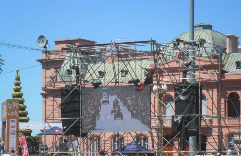 Start of Dakar 2015 in front of Casa Rosada, Buenos Aires, Argentina